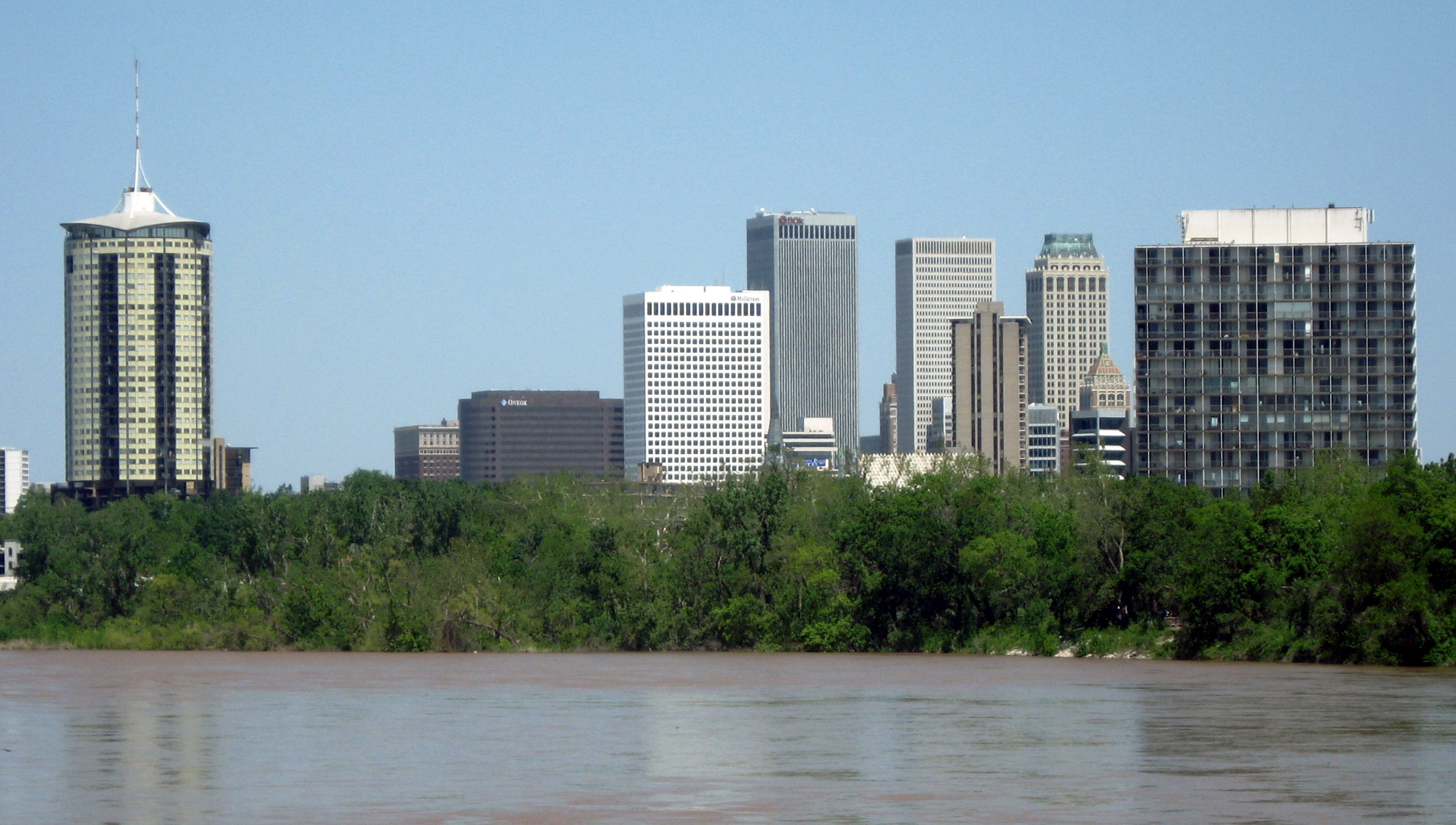 Tulsa Skyline Category:Images of Oklahoma